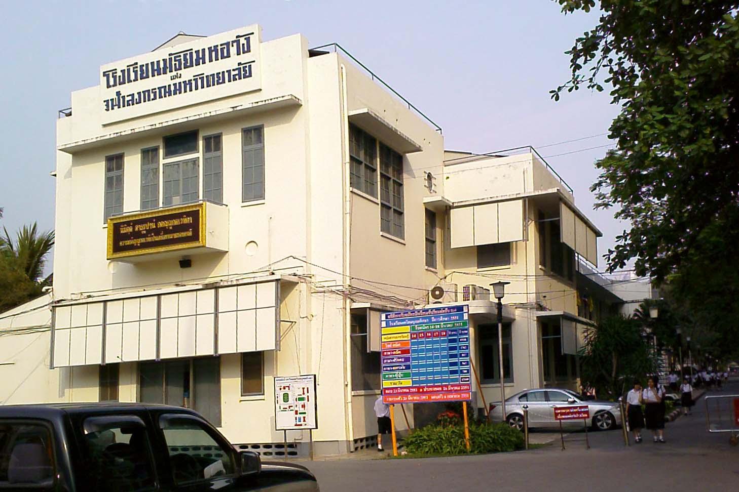 Building 1, Triam Udom Suksa School. Built in 1935, it is the oldest building in the school. The name of Mathayom Horwang School of Chulalongkorn University, which predated Triam Udom Suksa, is still displayed on the façade.